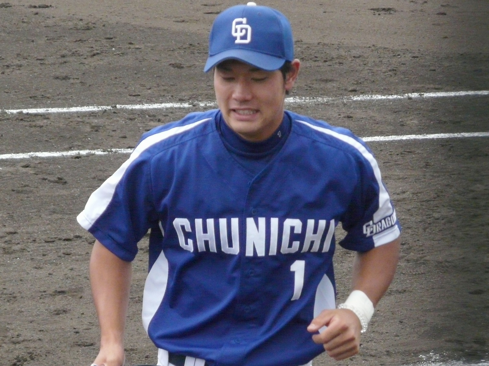 Copied from 画像:CD-Naomichi-Donoue.jpg: "堂上直倫"